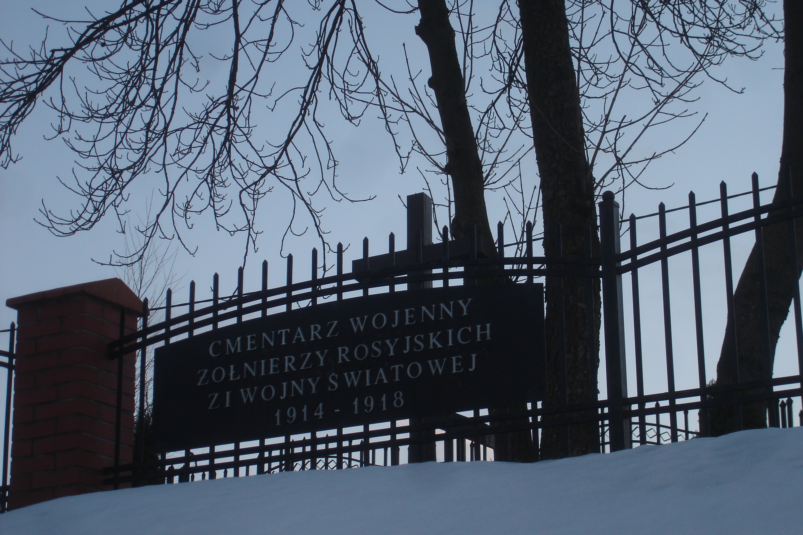 Elk:Cmentarz wojenny, ul. 11 listopada